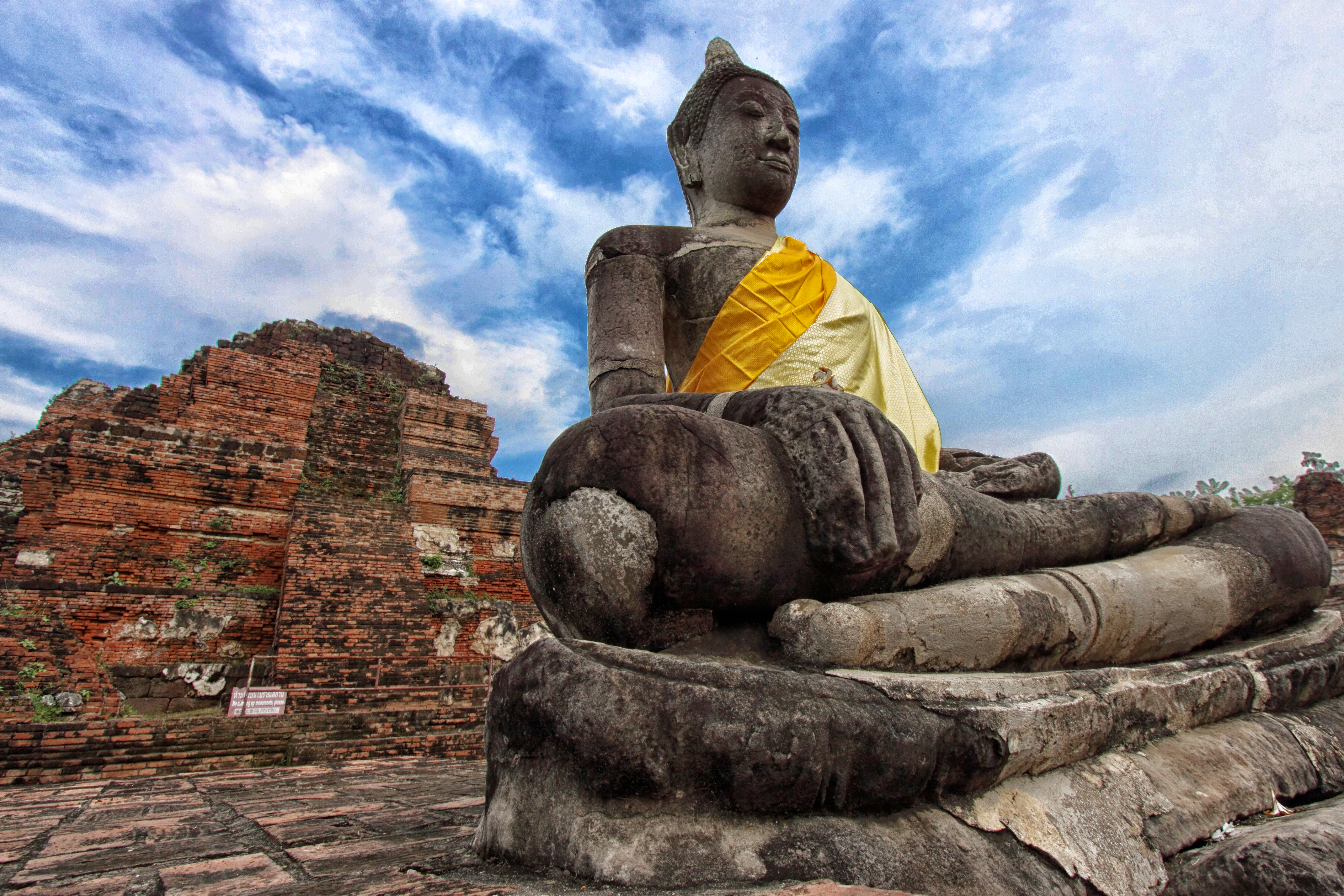 Wat Mahathat Ayutthaya